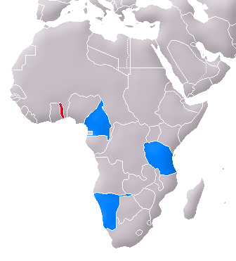 Location of Togoland (red) and the other German colonies in Africa (blue)